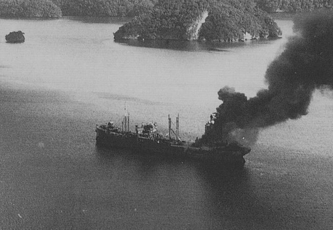 Imperial Japanese Navy oiler Irō under attack on 31 March 1944, Palau, photo by United States Navy